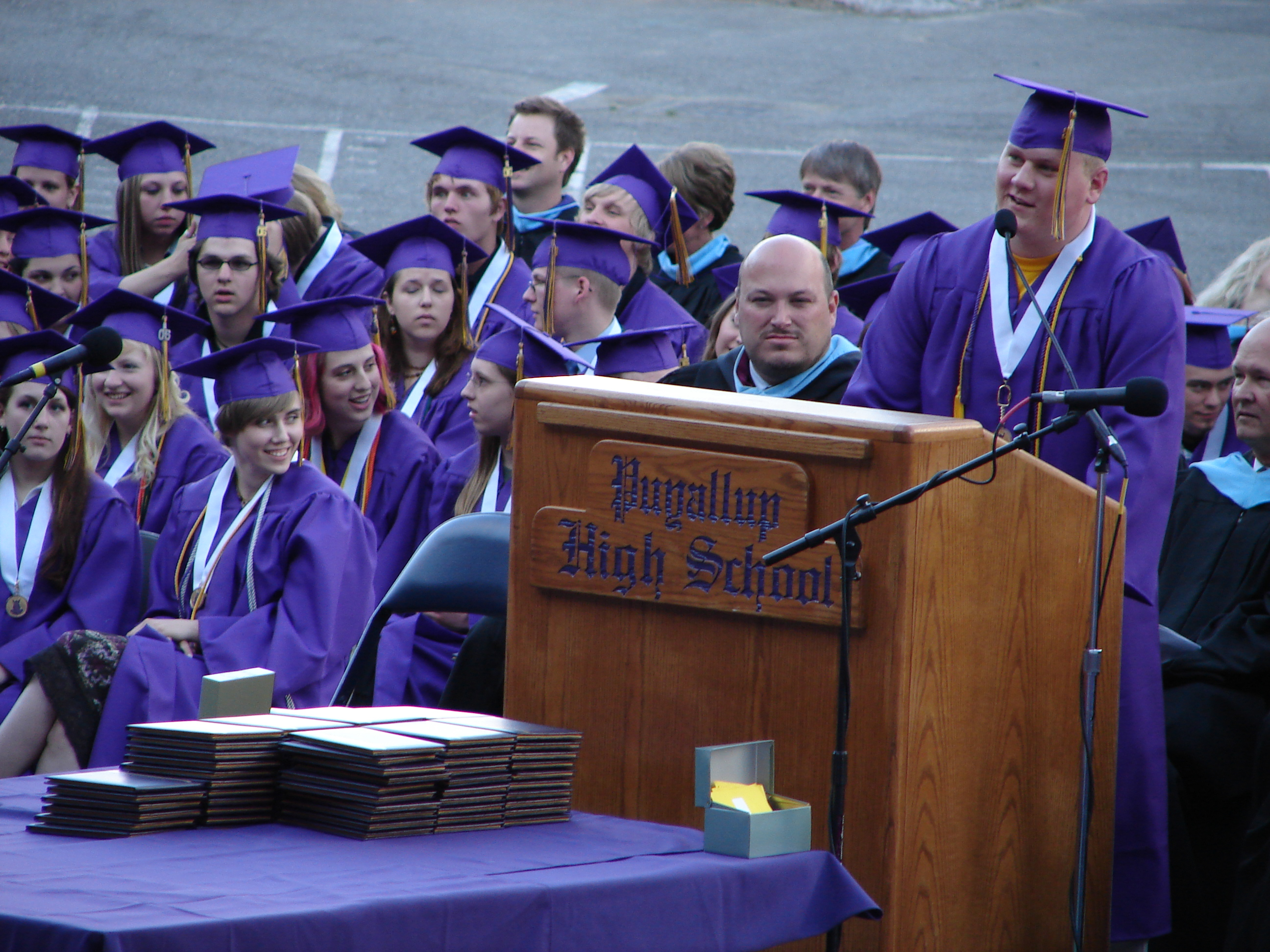 Puyallup High School valedictorian's speech, 2005